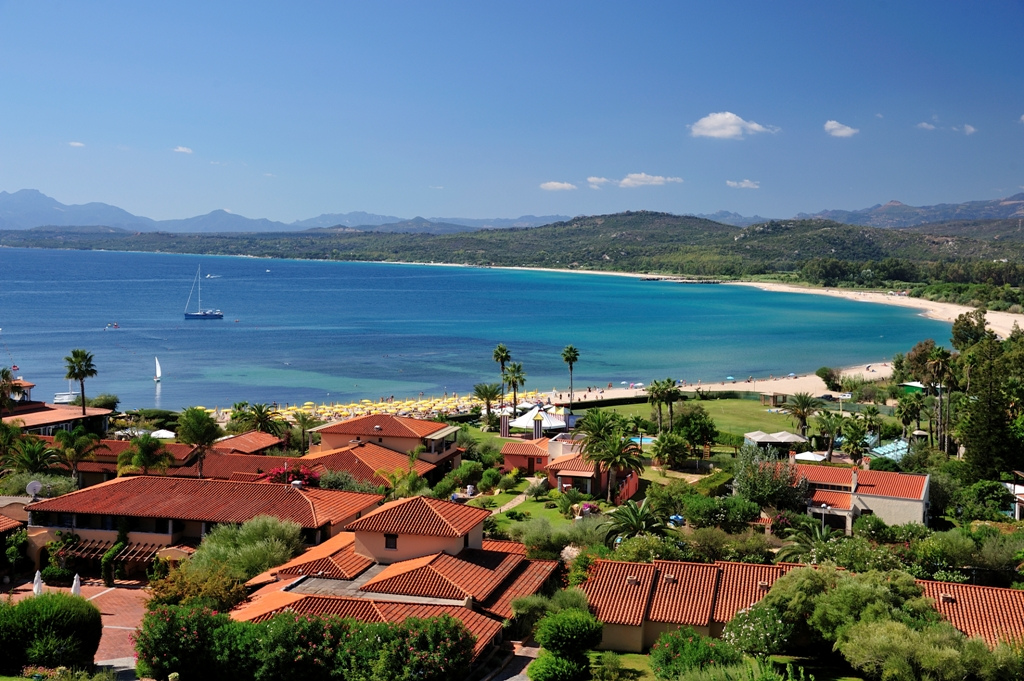 Arbatax Ogliastra Sardinia